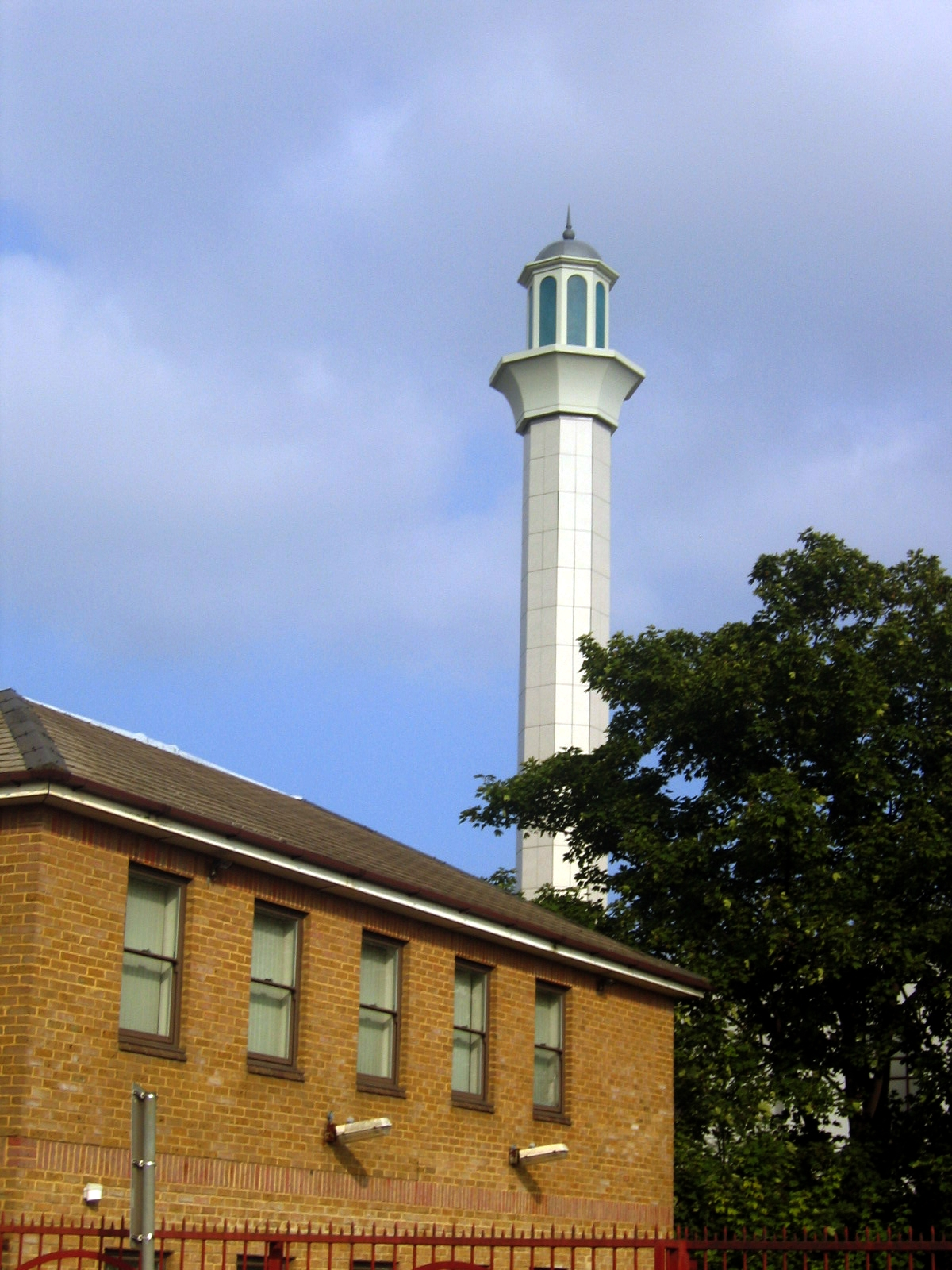 The Minaret of the Beitul Futuh